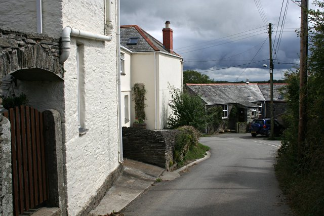 Burlawn Village. Houses at the T junction which is the village centre.